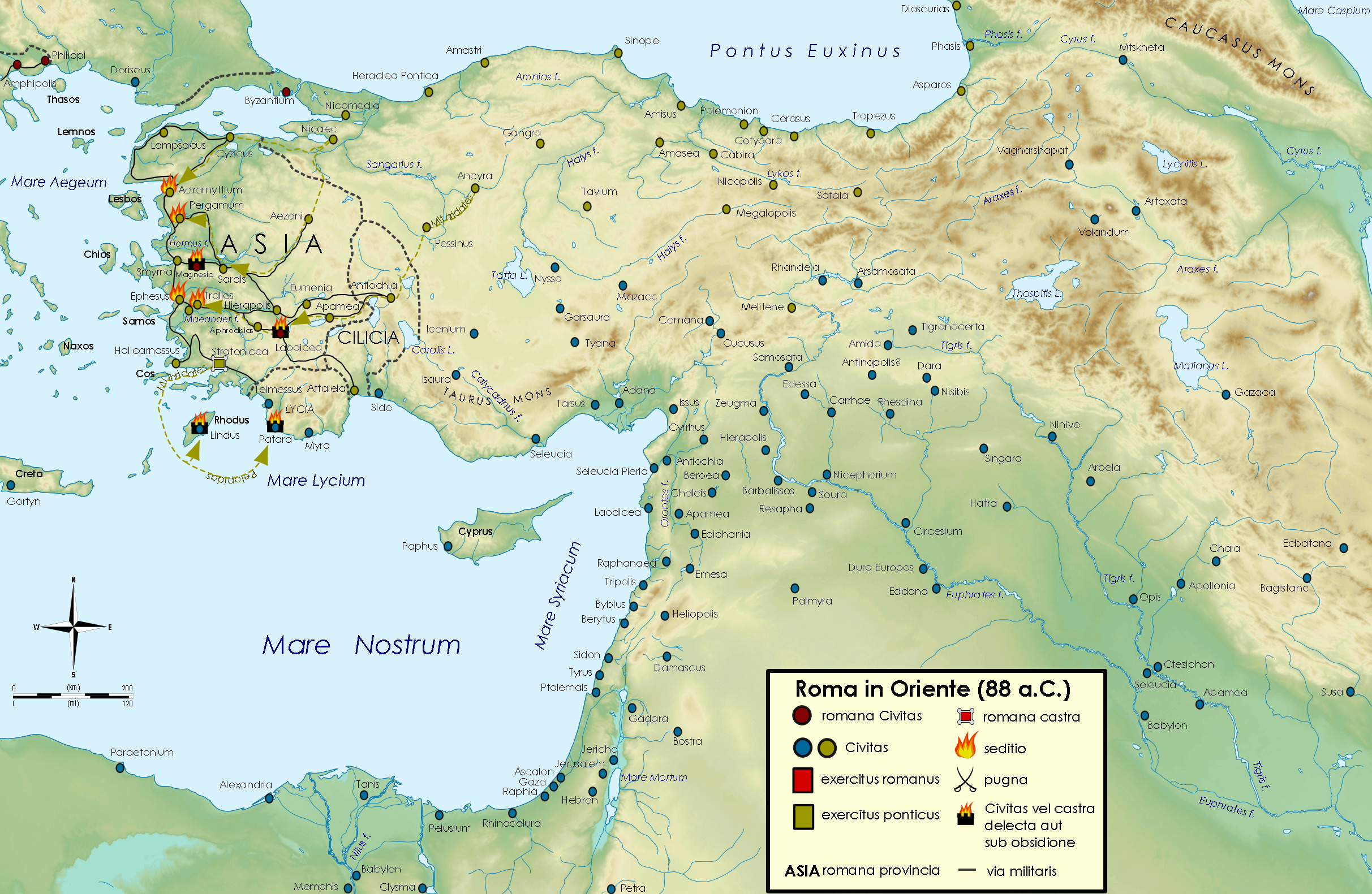 Roman republic in the Near East in 88 B.C., during the second year of the first Mithridatic War